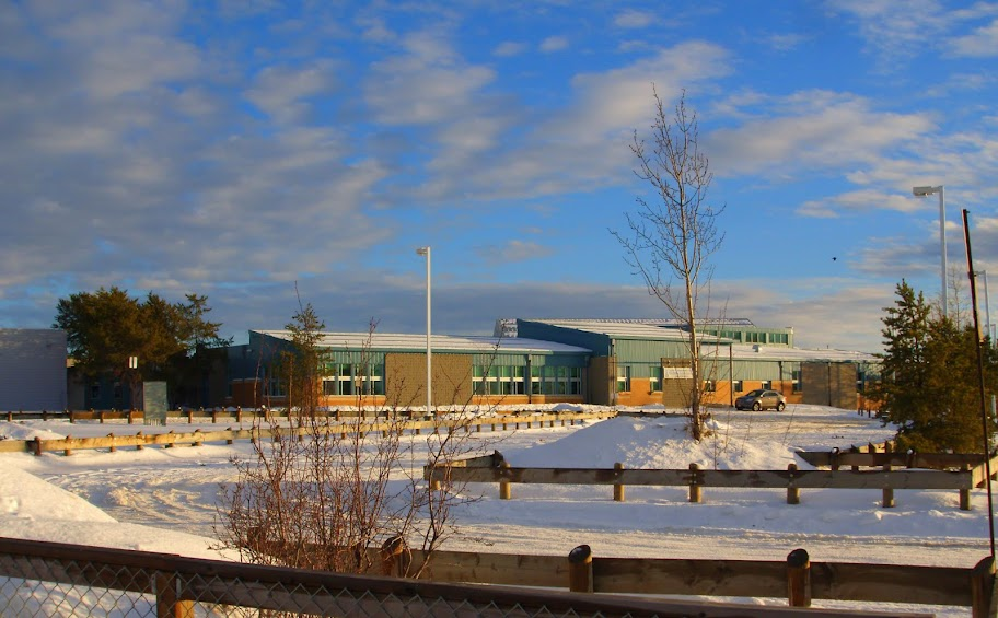 Dene High School in La Loche, Saskatchewan is part of the La Loche Community School.